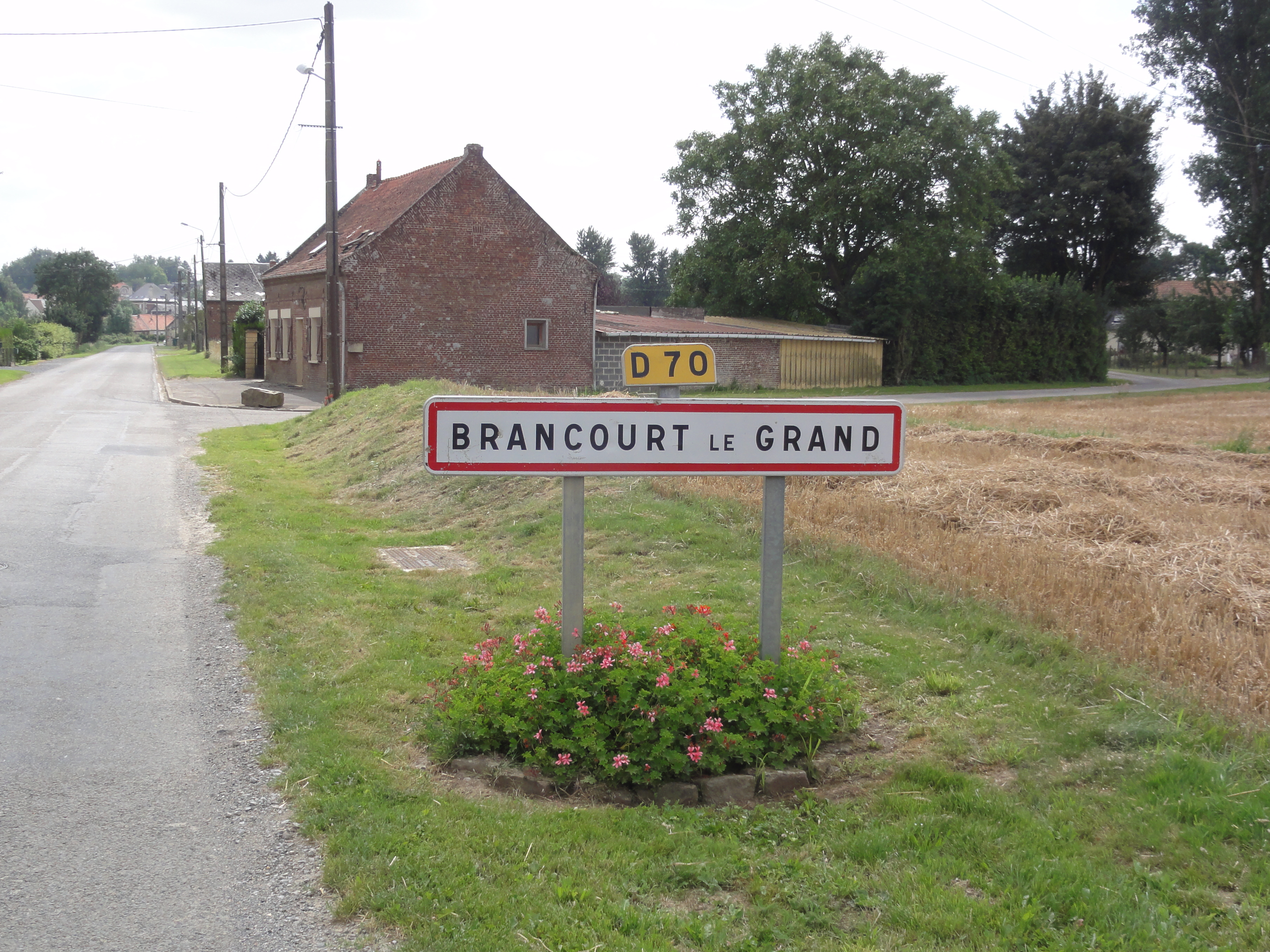 Brancourt-le-Grand (Aisne) city limit sign